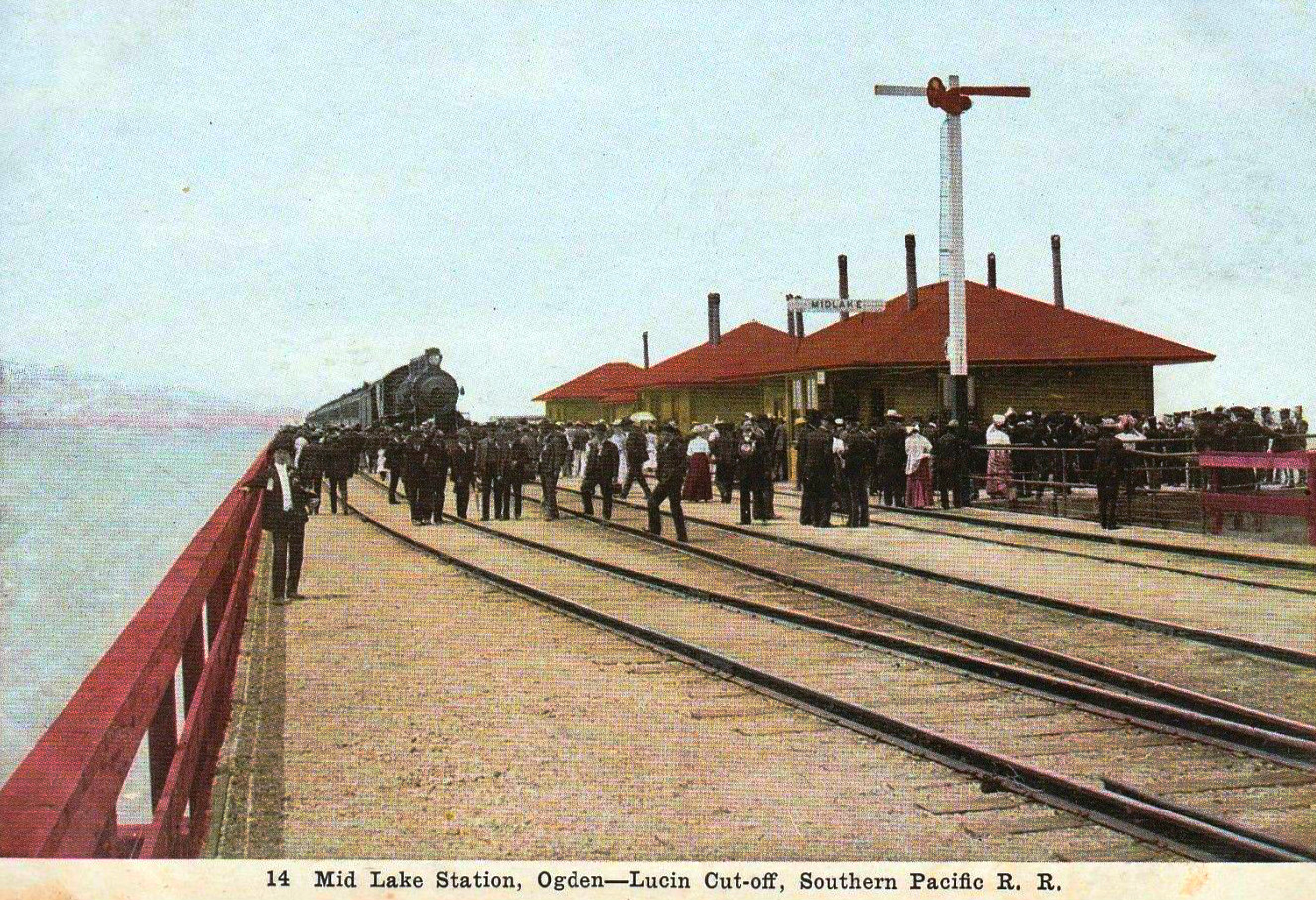 Postcard photo of the Mid Lake rail station at the Lucin Cutoff on the bridge over Great Salt Lake which was part of the Overland Route of the Southern Pacific Railroad.